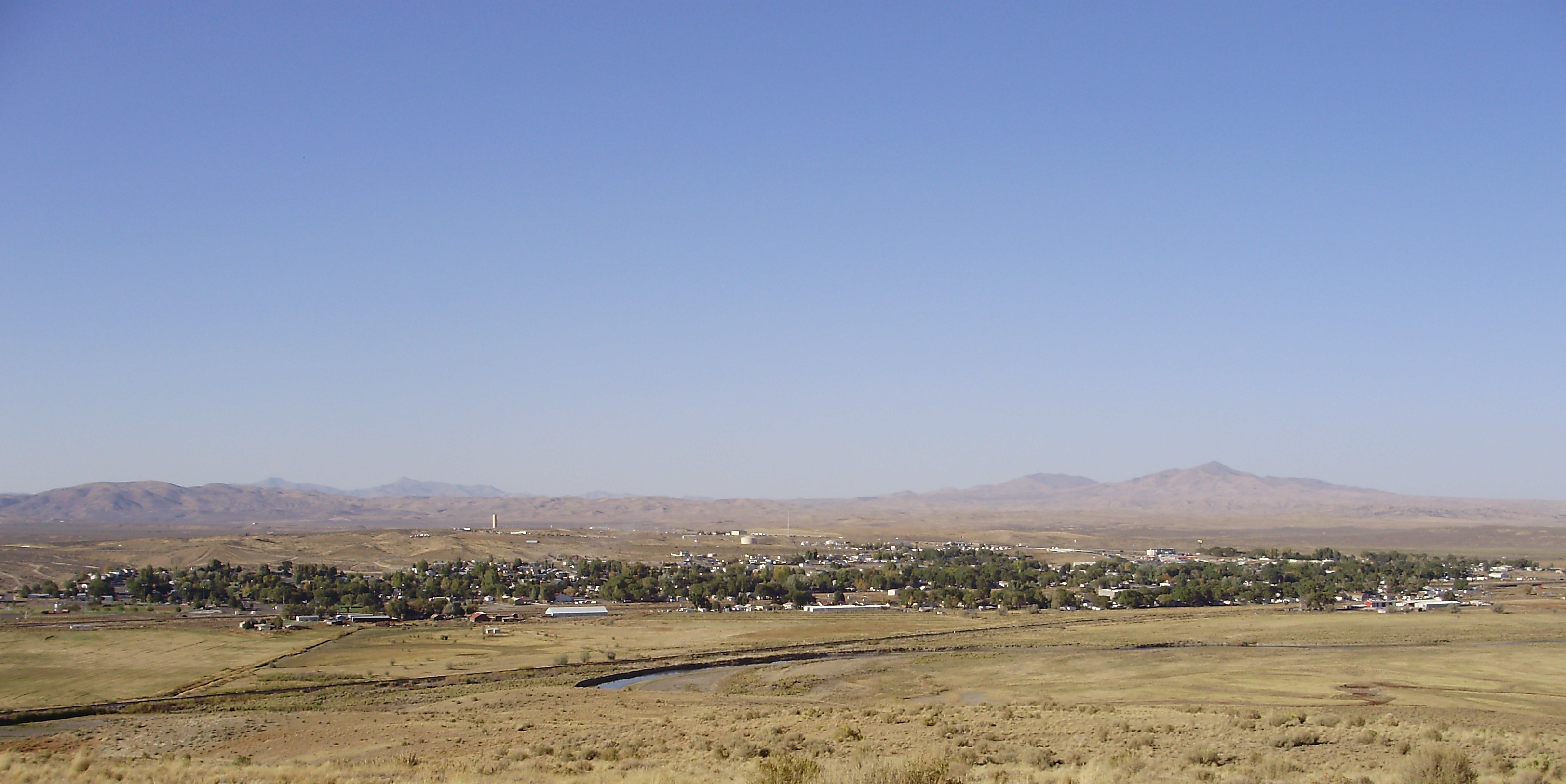 View of Carlin, Nevada from the south side of the Humboldt River.